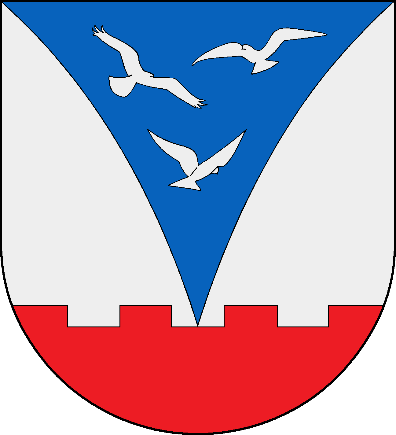 Coat of arms of the municipality Haale in Schleswig-Holstein, Germany.